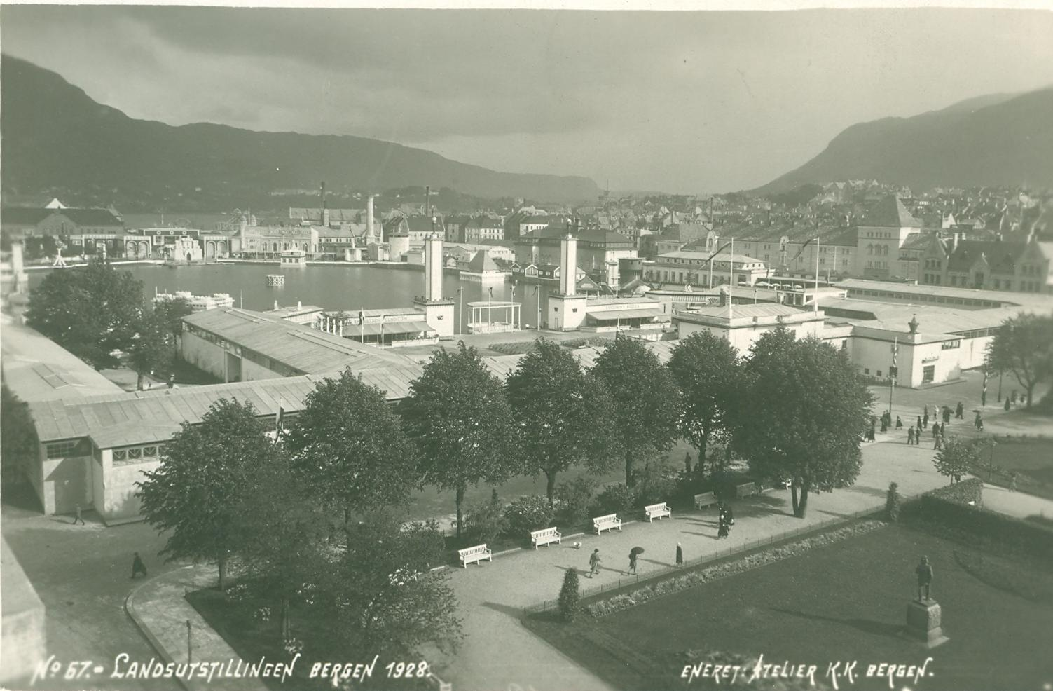 Artist: Atelier K.K. (Knud Knudsen) Date/place: May 1928, Bergen/Norway Subject: Overview picture of the National fair in Bergen 1928. The artificial lake, Lille Lungegårdsvann, in the center. Bergen Public Library seen in the far back to the left. Medium: Postcard Notes: More of Knudsen´s work available at: the picture collection at the University of Bergen (in Norwegian only). Persistent URL: n/a Original belongs to the Local Collection at Bergen Public Library